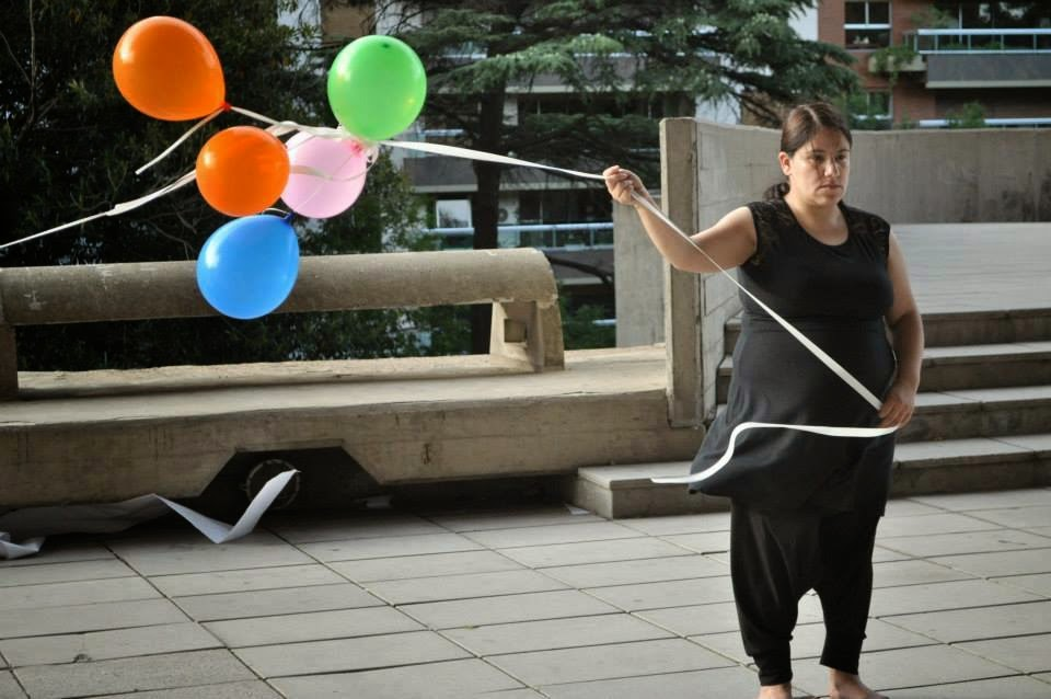 Second Performance at Buenos Aires National Library